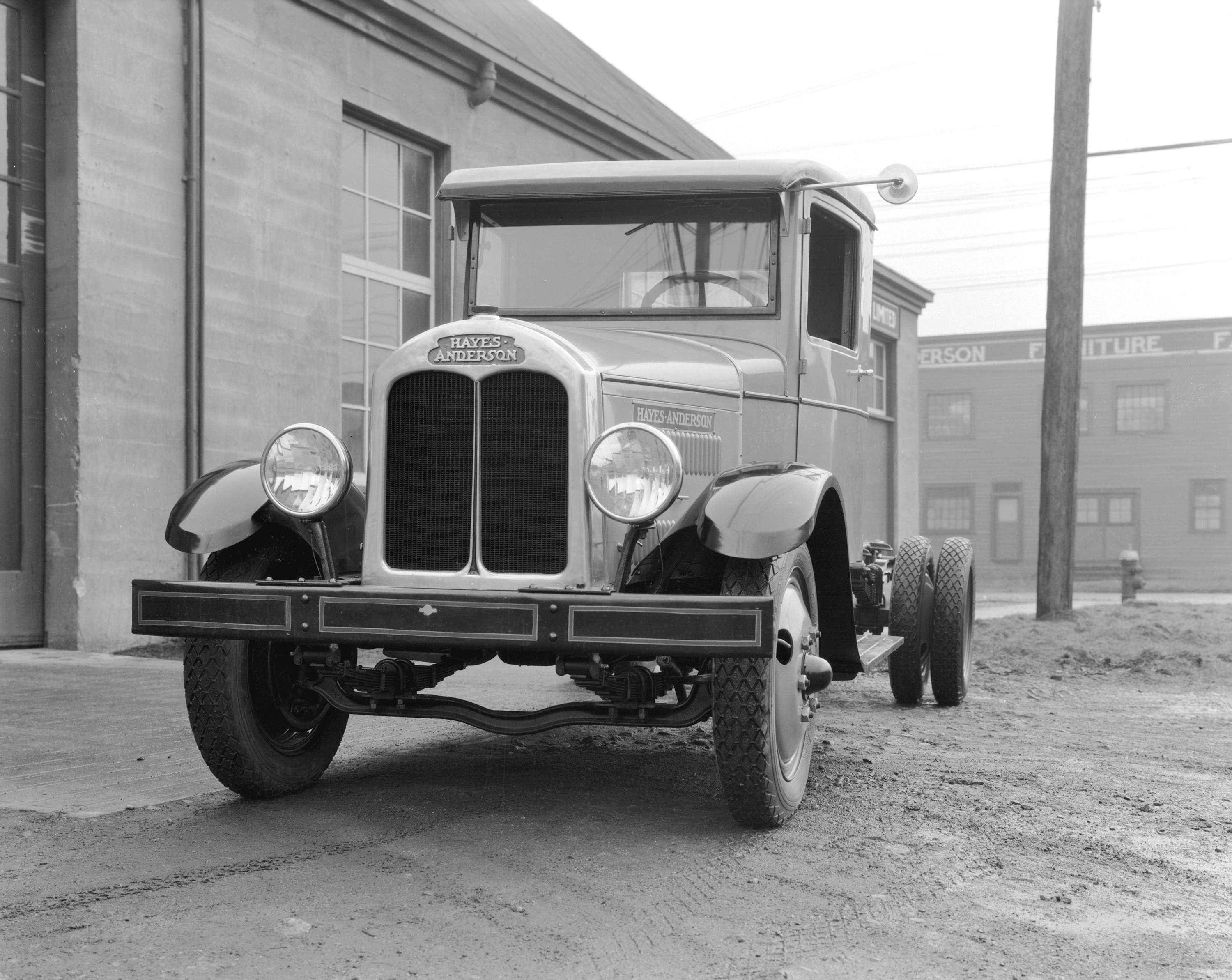 Hayes Manufacturing Company truck from showroom [outside 295 West 2nd Avenue]